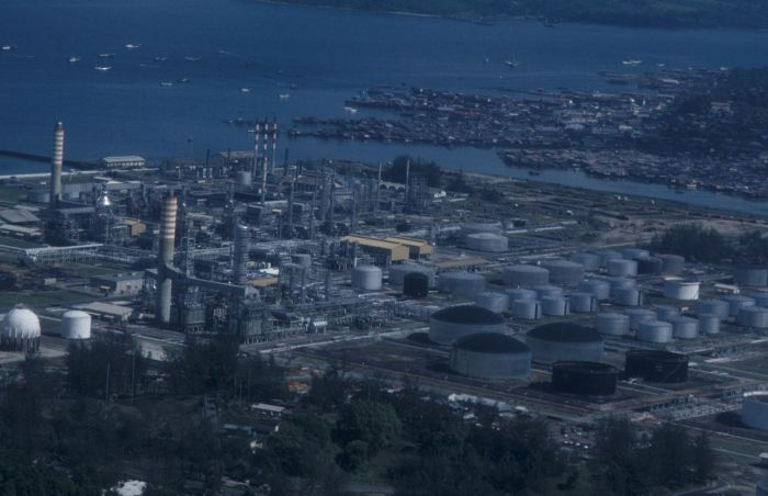 Air photo oil refinery